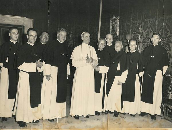 Private family collection. No copyright!